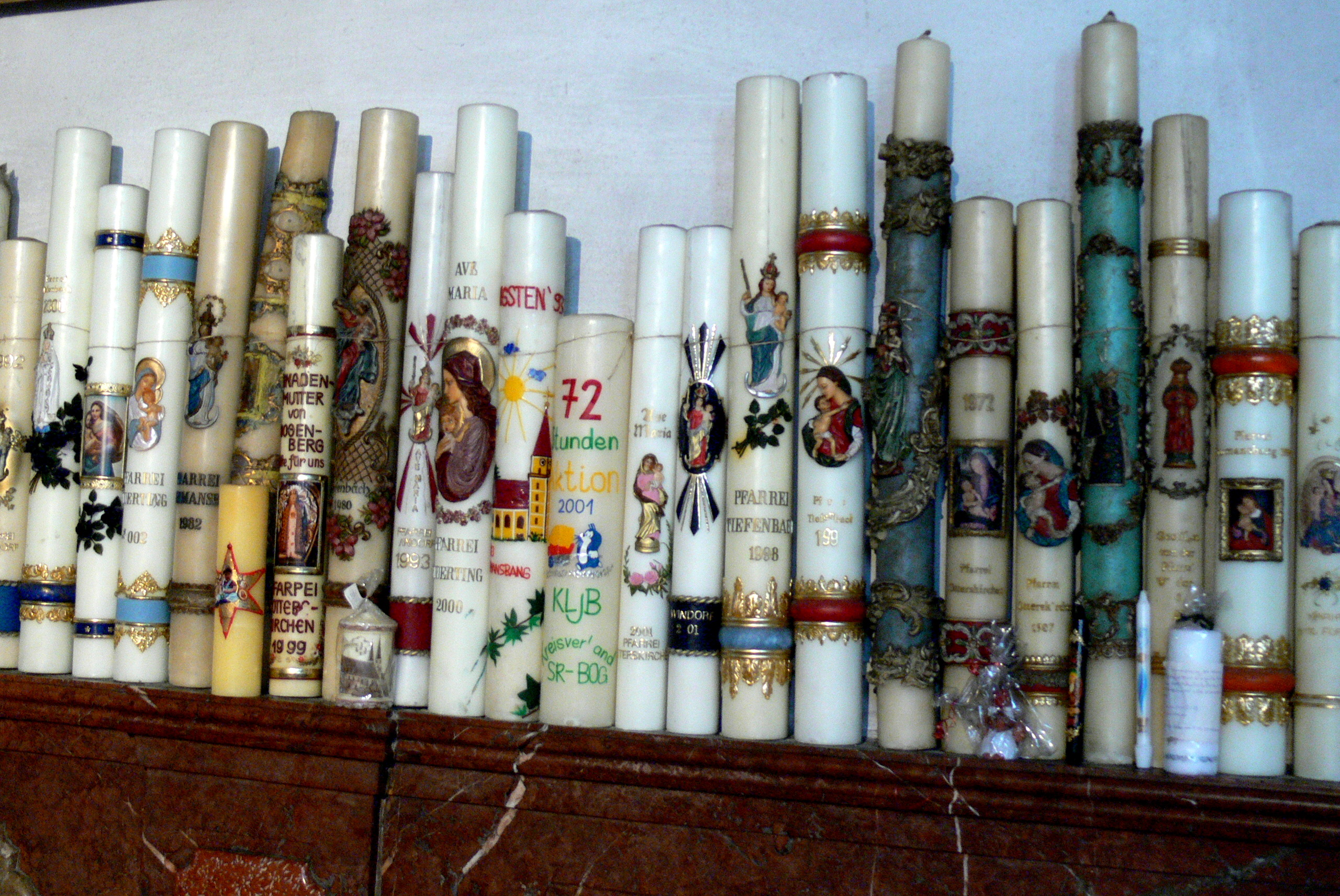 Bogenberg ( Lower Bavaria ). Mary-Assumption-Church: Votiv candles.